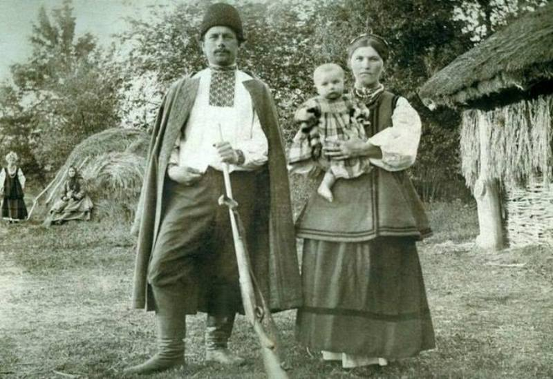 young couple, Bobrovytsia Ukraine (1916)